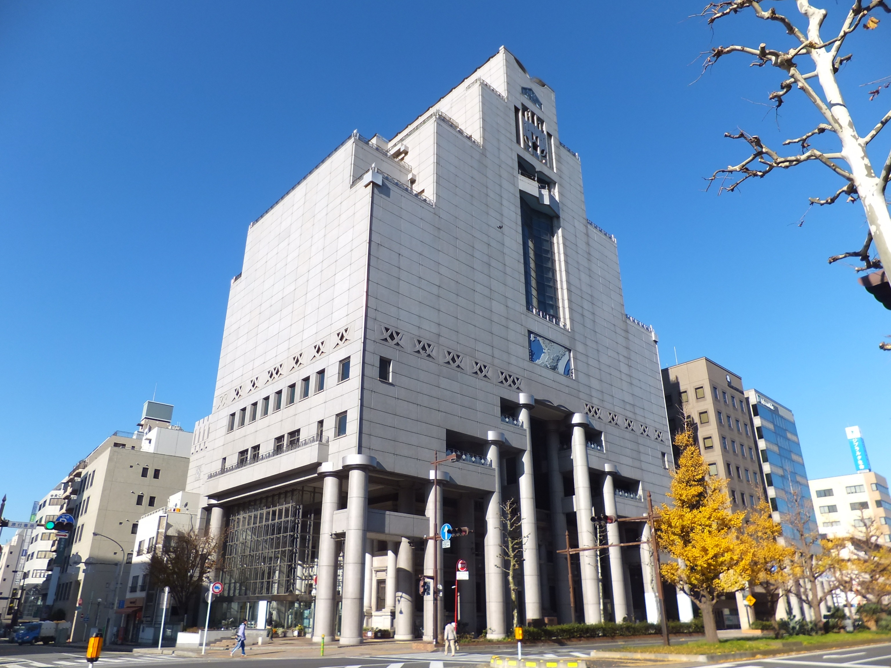 Chūō ward office in Chiba city. This architecture has been set up as Chiba city art museum.